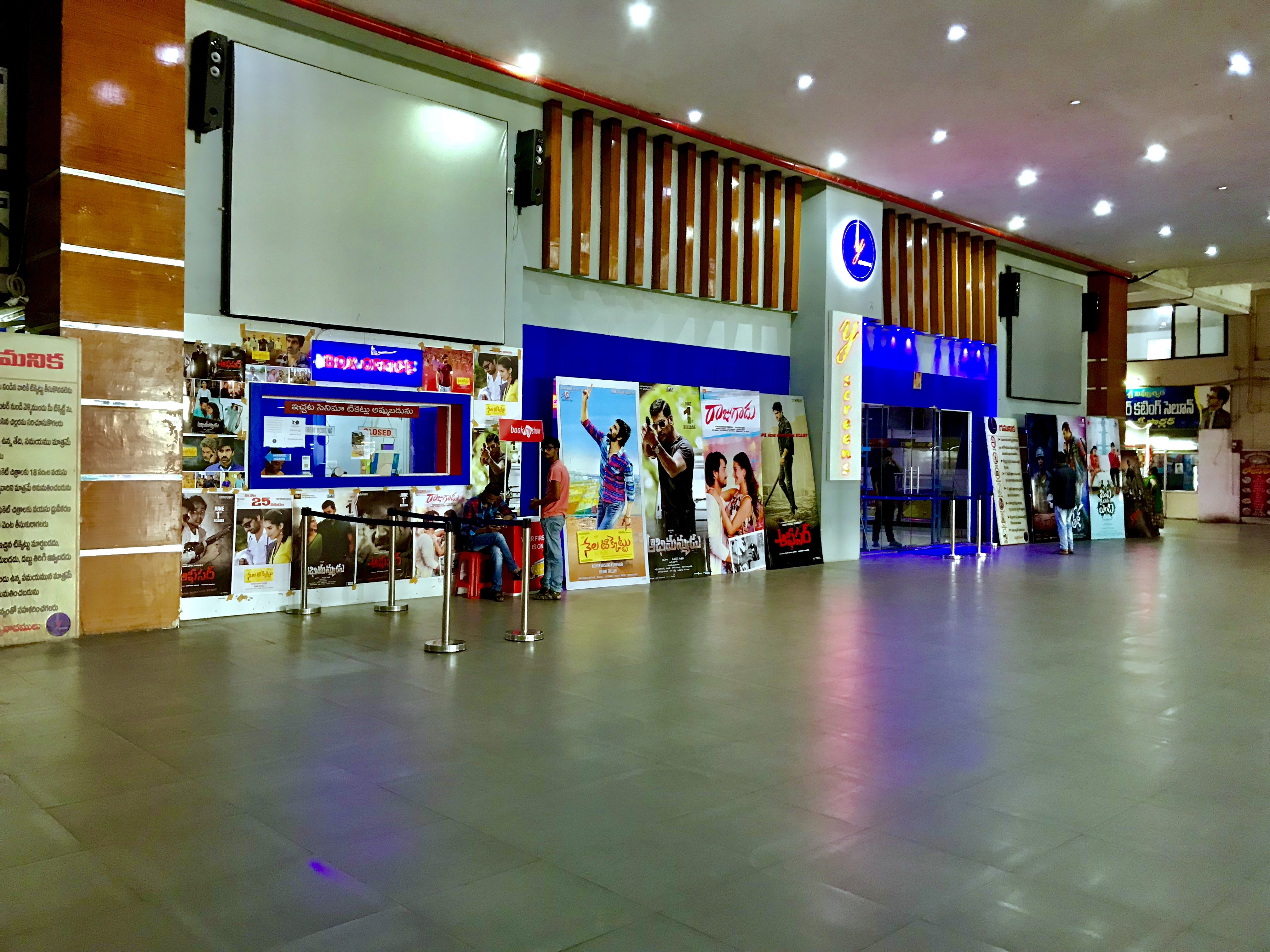 Y Screens in PNBS-Vijayawada